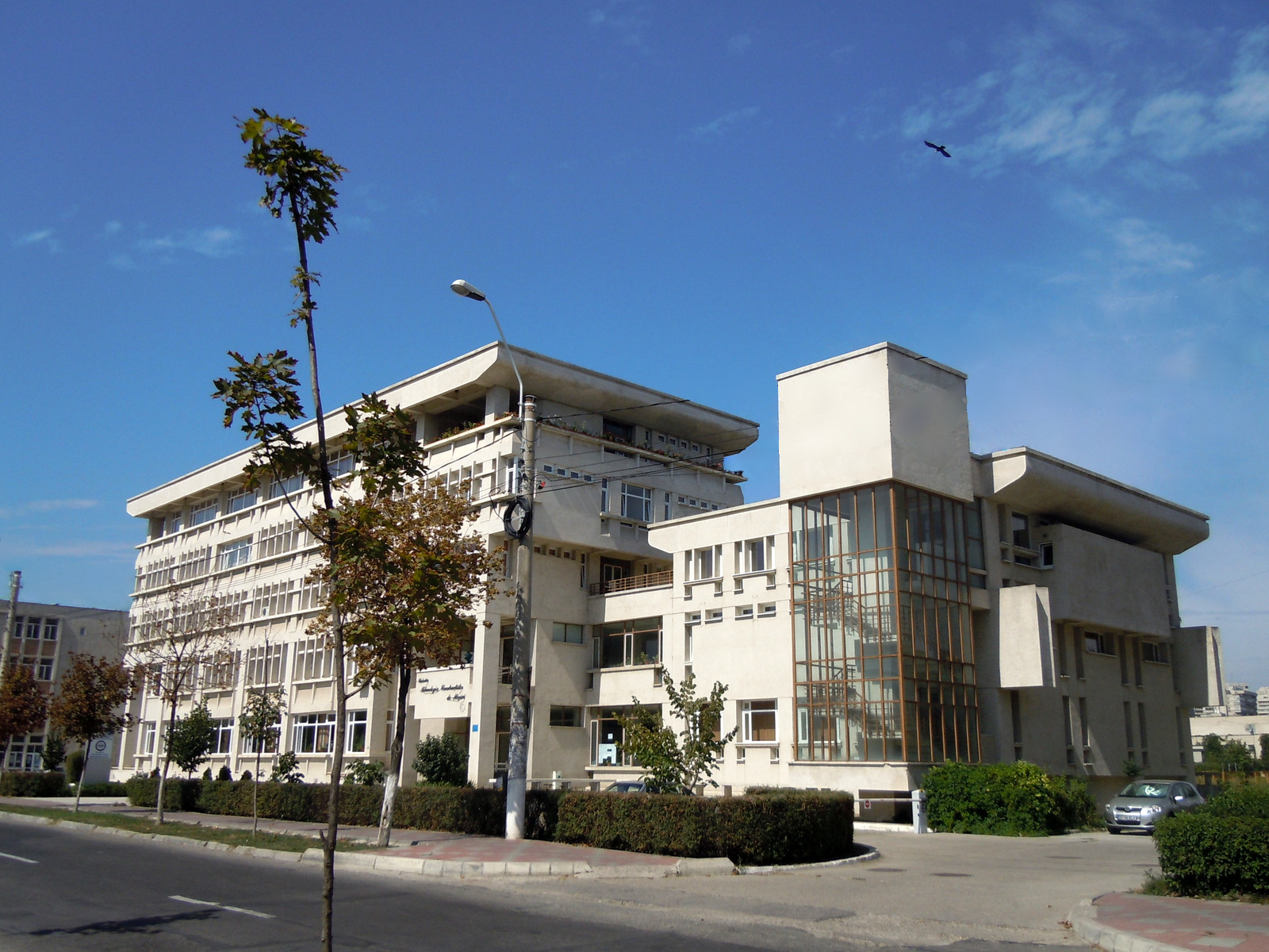 Iaşi , Faculty of Construction Machinery and Industrial Management of the Technical University „Gheorghe Asachi“ , Iaşi , Romania